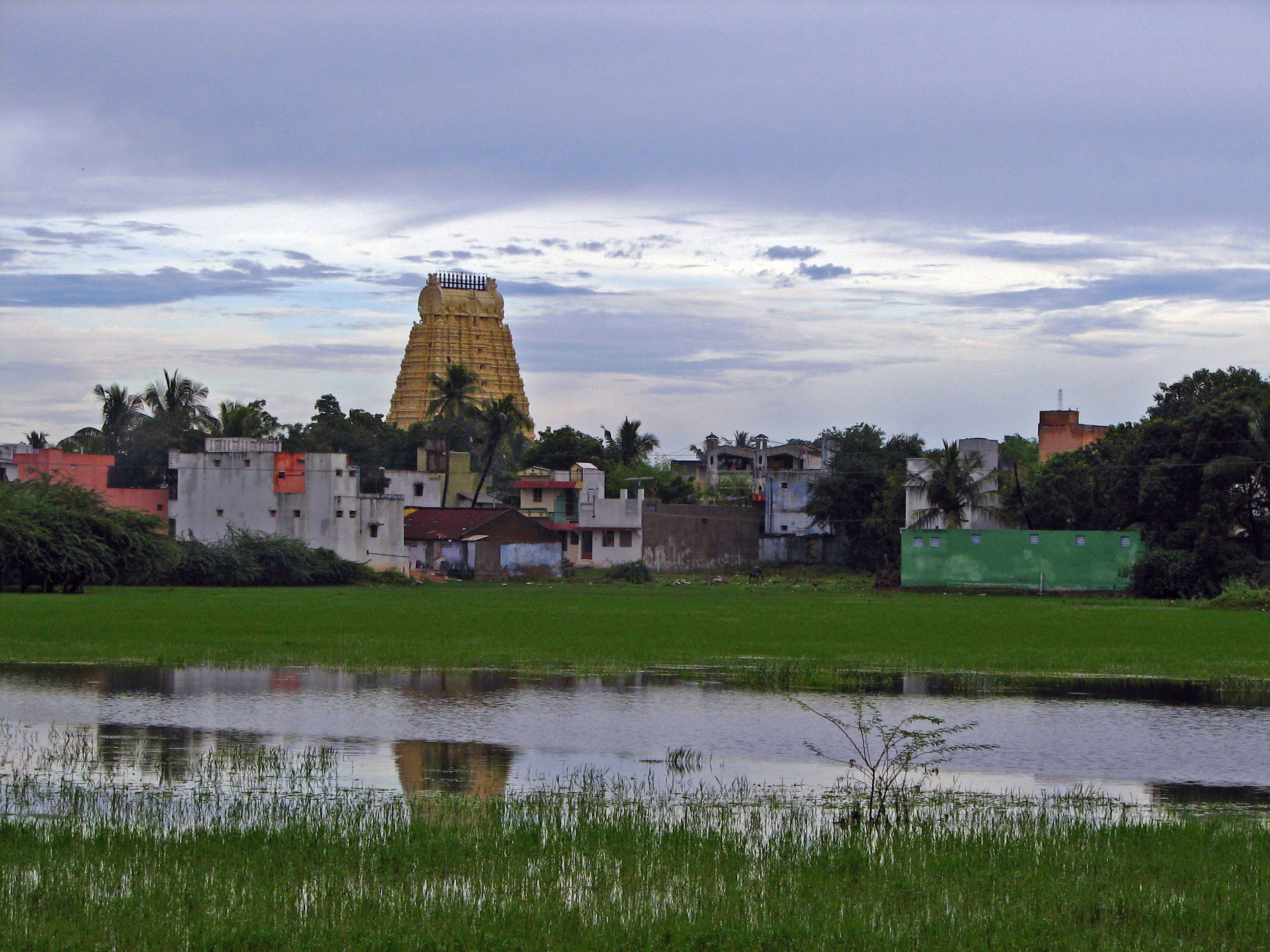 Kanchipuram is one of the temple towns of South India and a pilgrmage site. The soaring gopuram of Ekambareswara temple dominates the skyline. This was a brief respite from the afternoon monsoon rain.